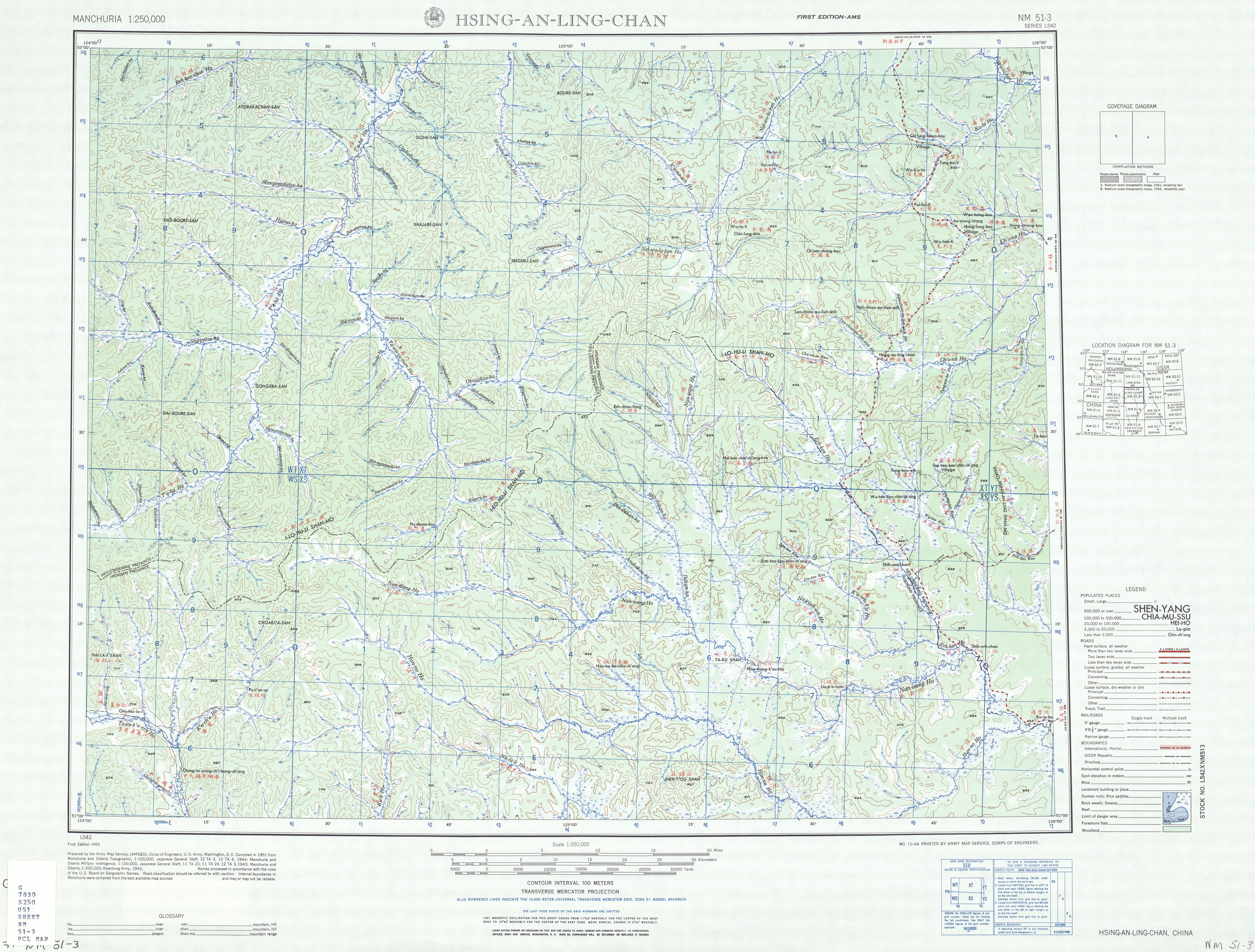 Manchuria AMS Topographic Maps